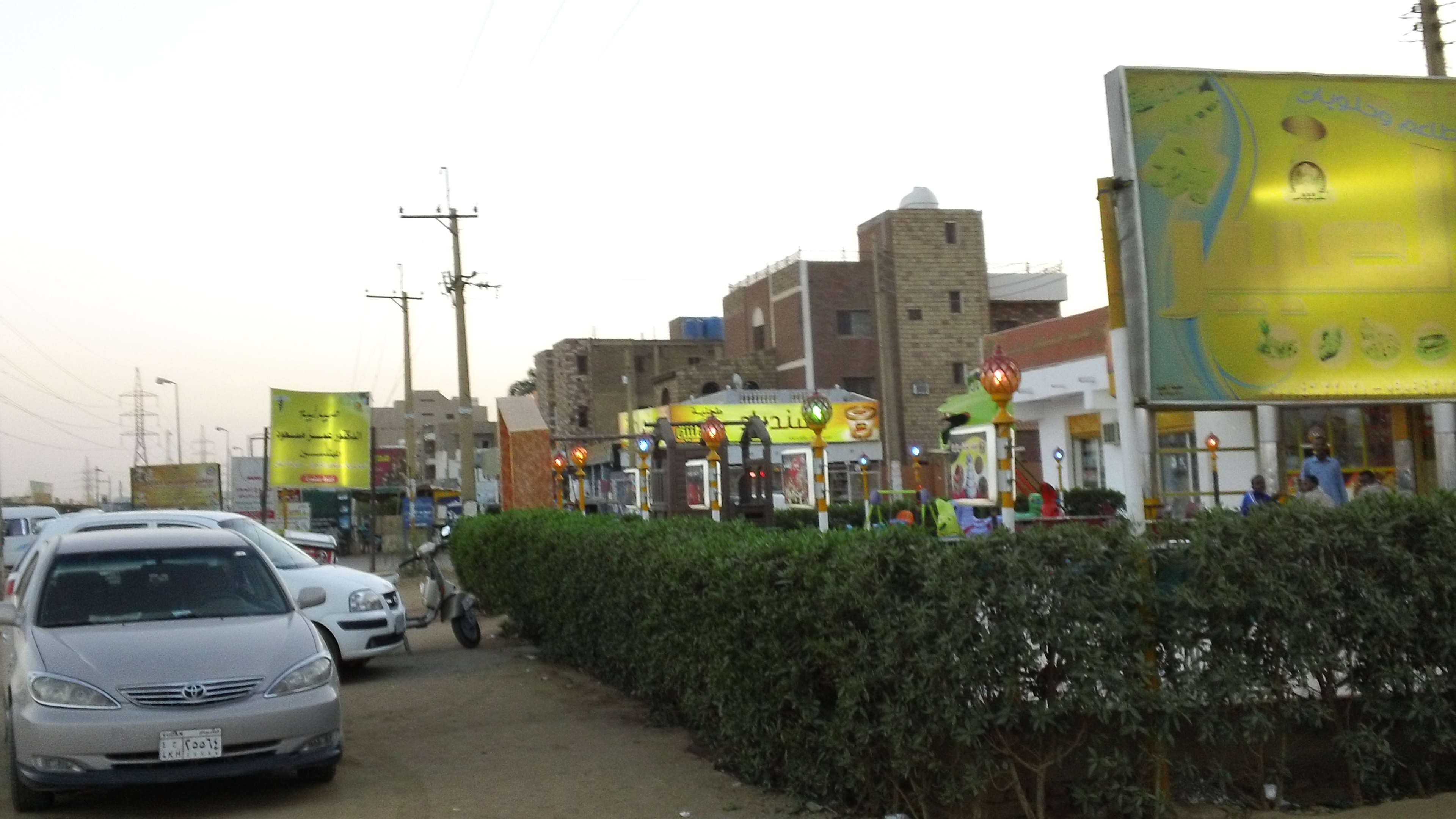 حي المهندسين-أم درمان-السودان